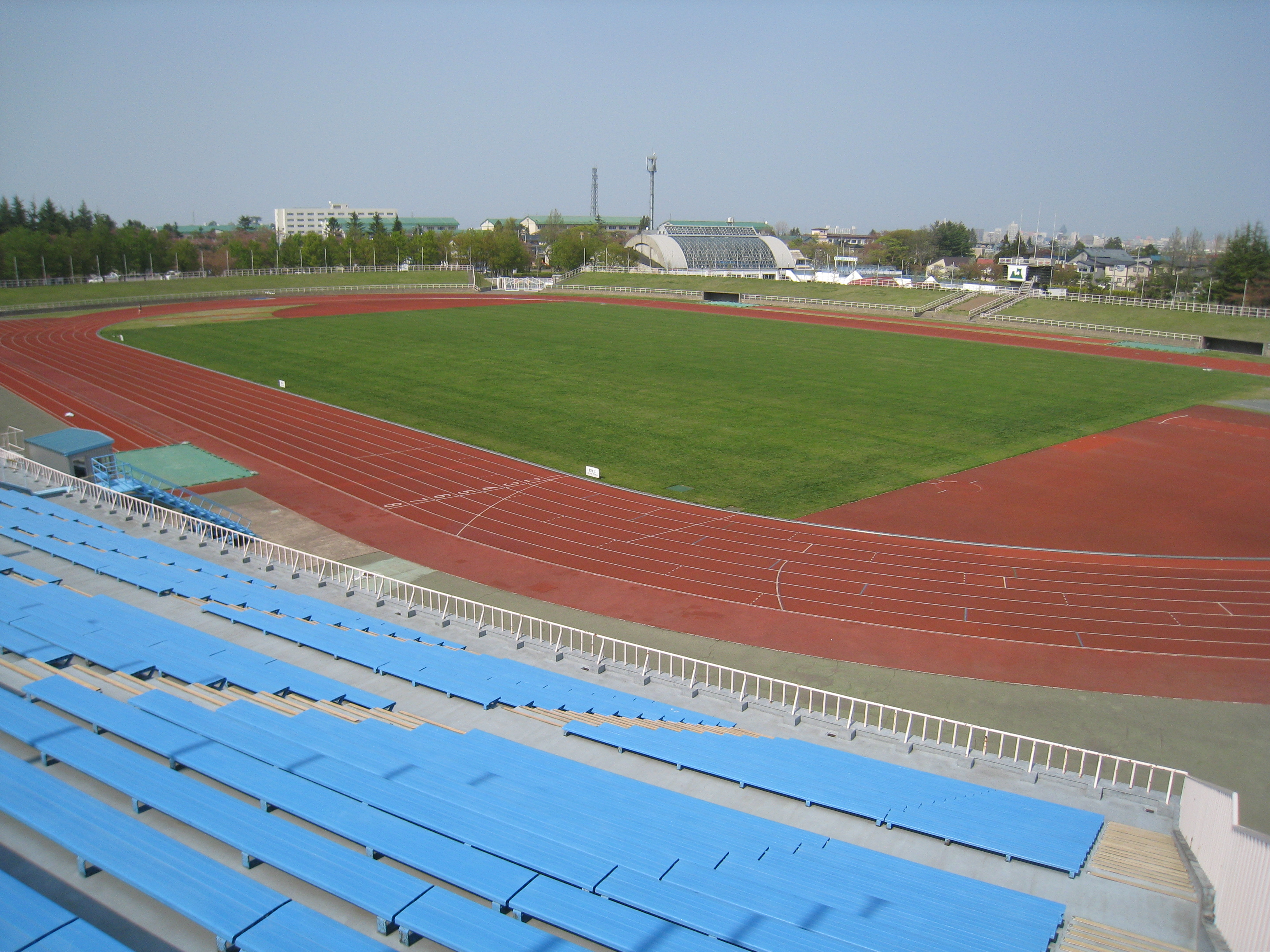 Aomori sportspark mainstadium. Aomori-city,Japan